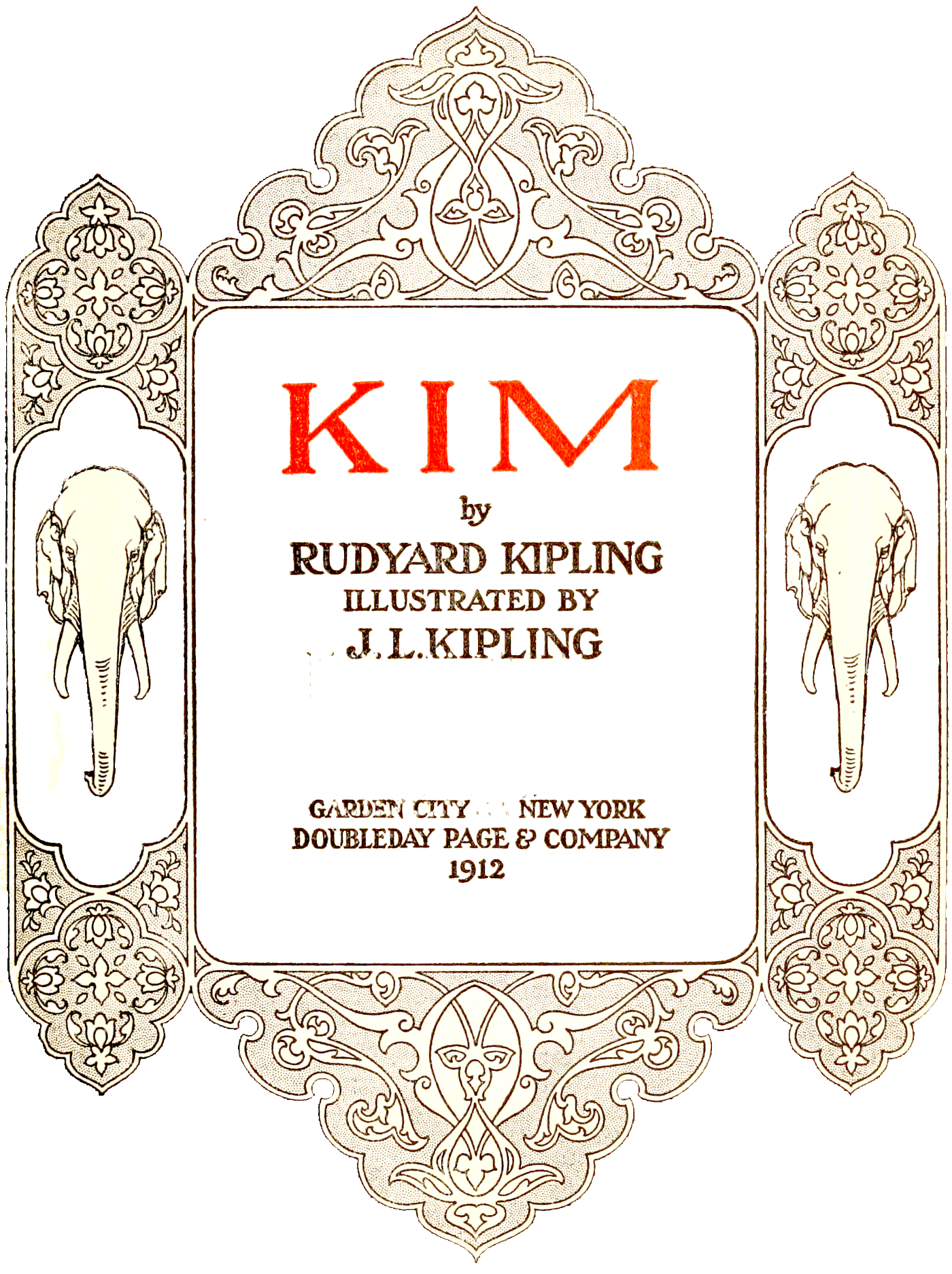 Title Page. Image from the book Kim, by Rudyard Kipling, illustrated by J. L. Kipling.